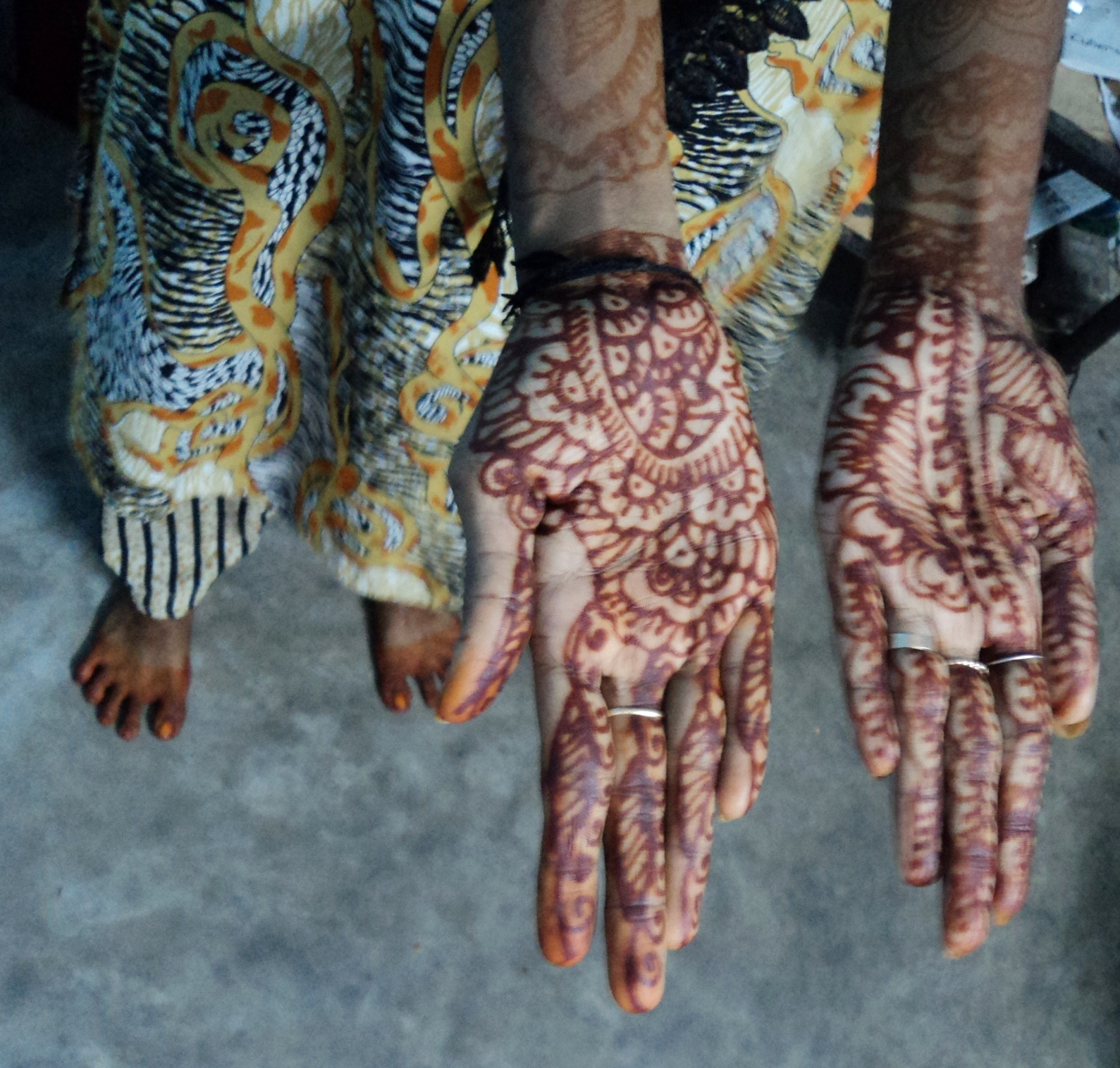 herbal beauty of female's hand&feet from TamilNadu, India